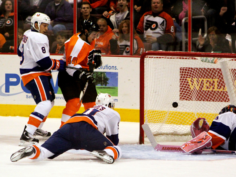 Philadelphia Flyers forward Daniel Briere during a game against the New York Islanders on October 30, 2010.